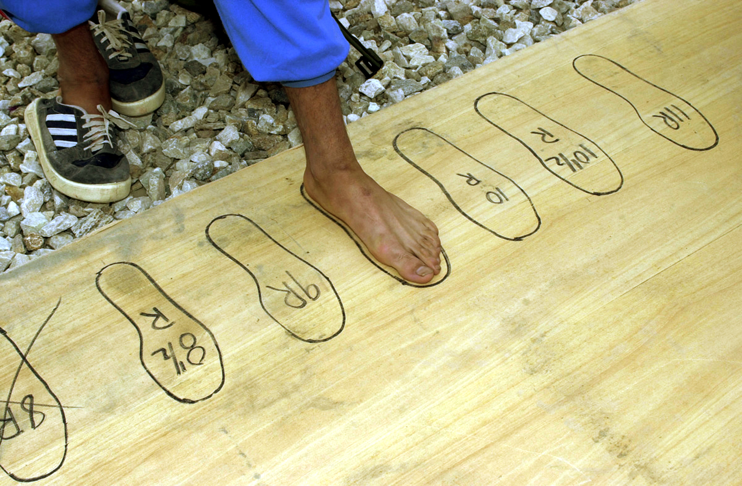 A new recruit of the Afghan National Army is measured for his boot size (left foot) during uniform issue at the Afghan National Army training site in Kabul, Afghanistan, on May 14, 2002. Approximately 150 U.S. Special Forces soldiers are deployed to Kabul to equip and train recruits of the new Afghan National Army in training cycles of approximately 10 weeks in duration. The training will emphasize basic soldier skills at the beginning of each training cycle and then progress to more complex tasks as skills are mastered. Collective training at the squad, platoon, company and battalion level will follow individual training.